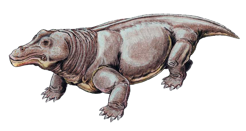 Struthiocephalus